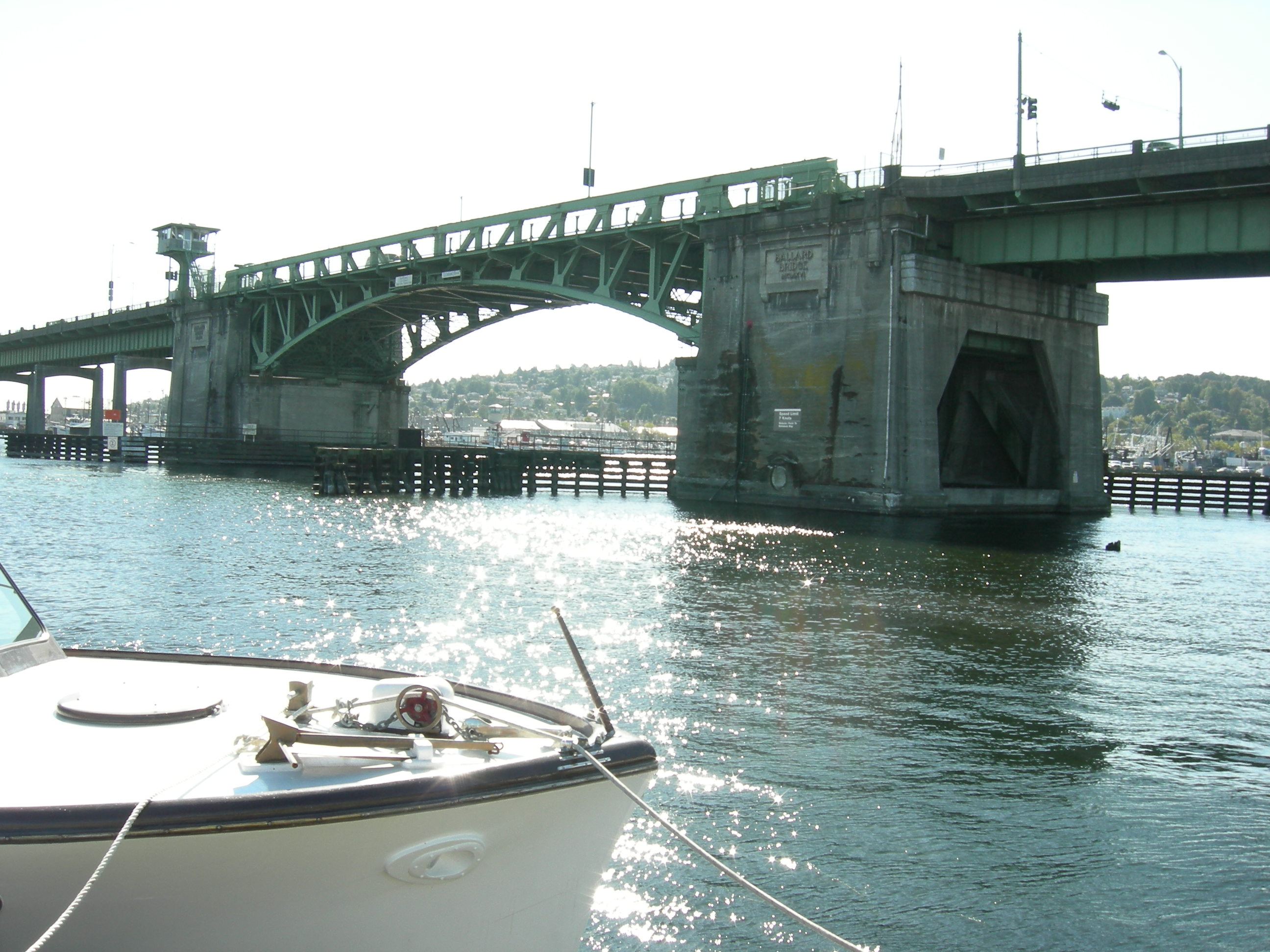 The Ballard Bridge seen from the Seattle Maritime Academy, Seattle, Washington, USA. Looking roughly southwest. The Seattle Maritime Academy is part of Seattle Central Community College (although it is several miles from the rest of the campus). The bridge is on the National Register of Historic Places, ID #82004231.